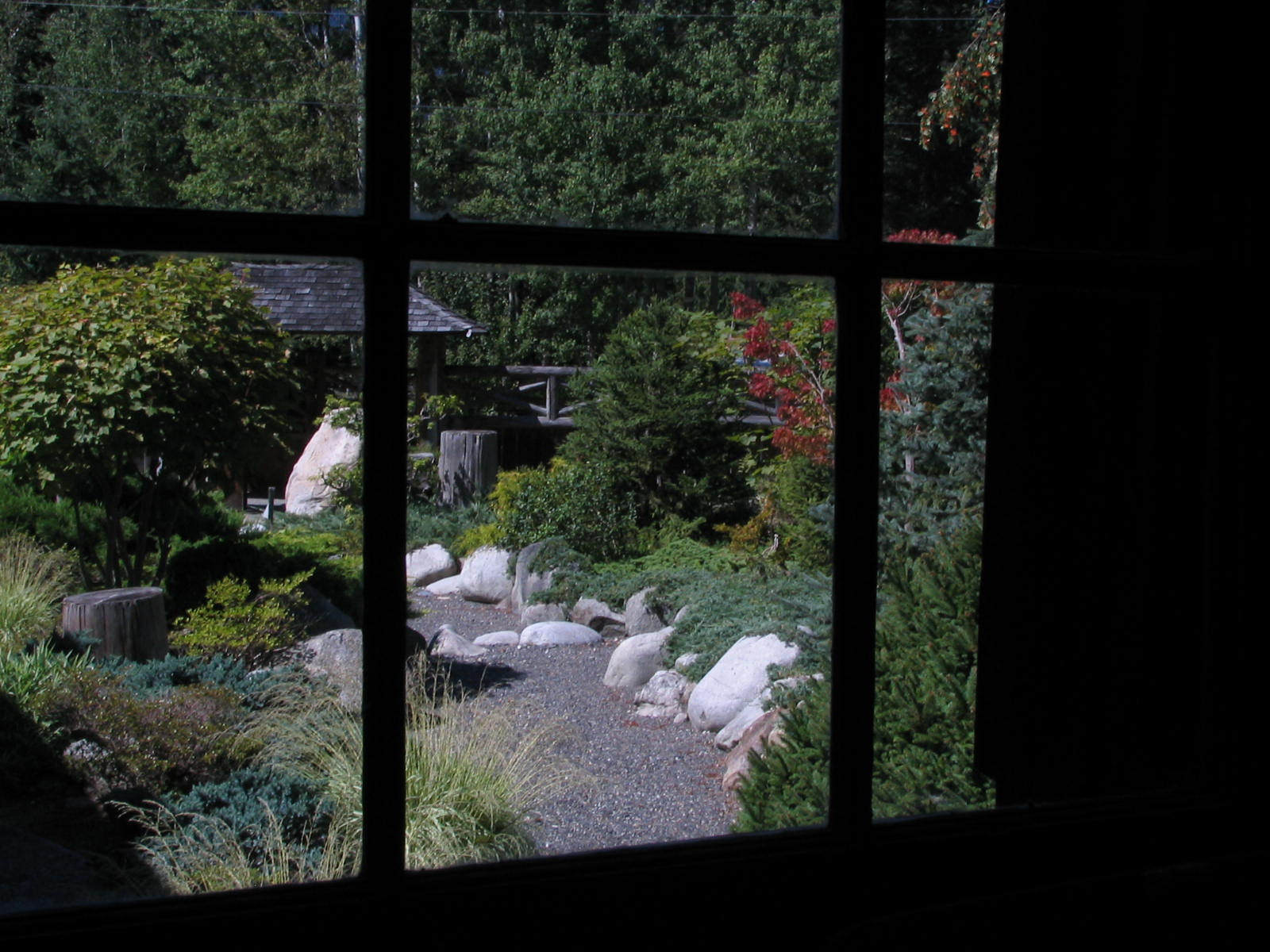 Nikkei Memorial Internment Centre, view from inside Internment Centre building looking to outside garden. Picture taken by Martin Mullan at New Denver, August 2005